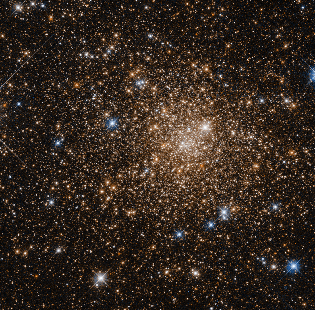 A quick globular for tonight. This is, as the name implies, Terzan 's first globular cluster out of eleven total. Some noteworthy facts about the cluster are available for perusal in this paper: Red: hst_05436_03_wfpc2_f814w_wf_sci Green: Pseudo Blue: hst_05436_03_wfpc2_f555w_wf_sci North is NOT up. It is 44.3° counter-clockwise from up.